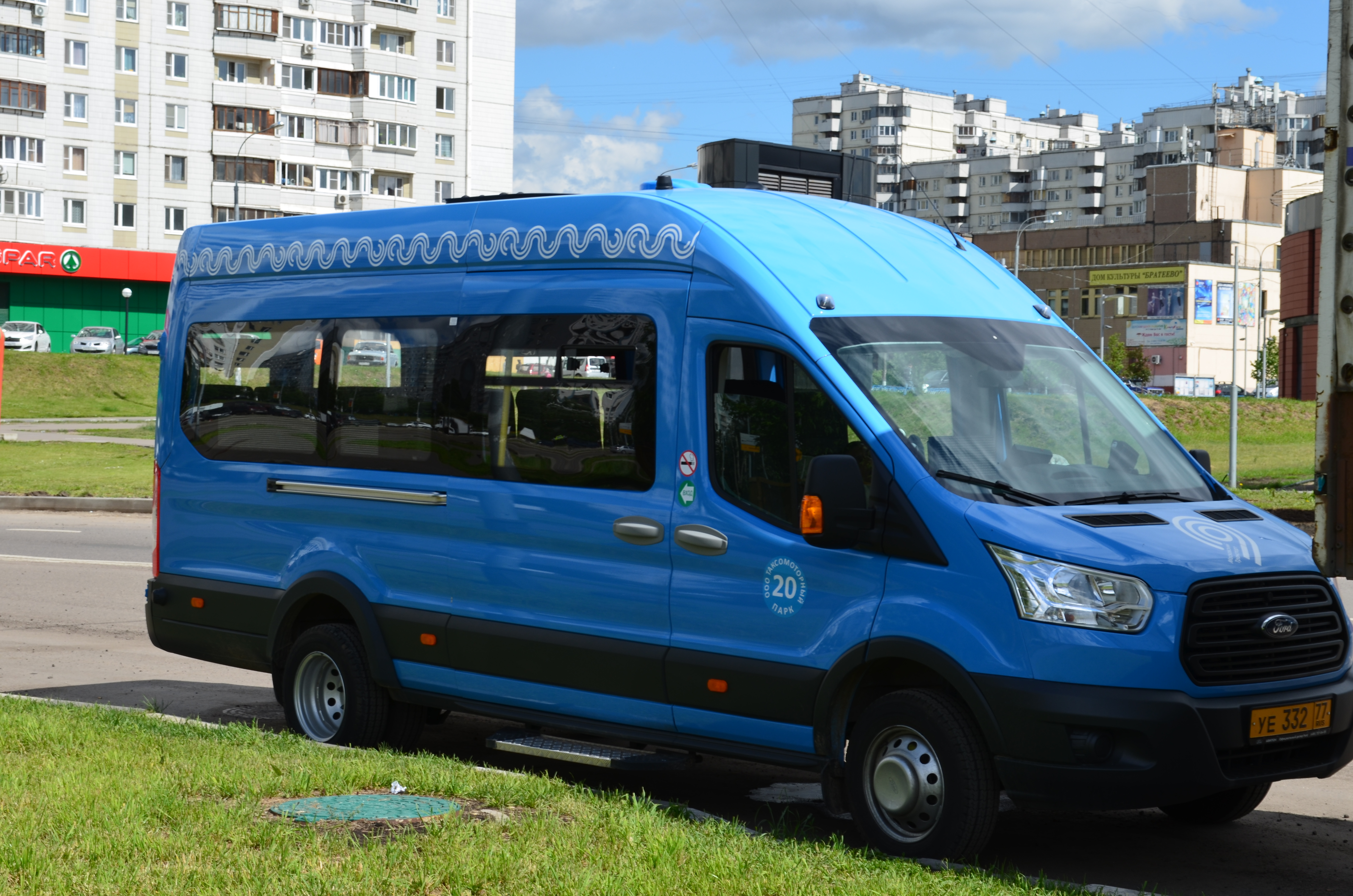 Ford Transit in Moscow as shared taxi (marshrutka)